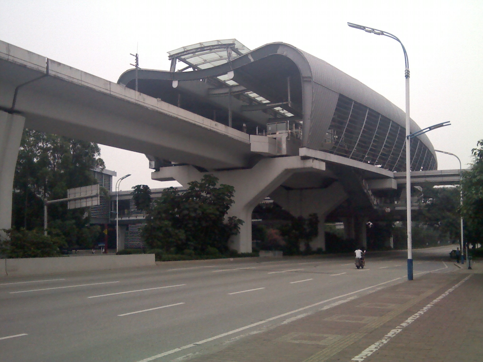 黄阁汽车城站车站外观